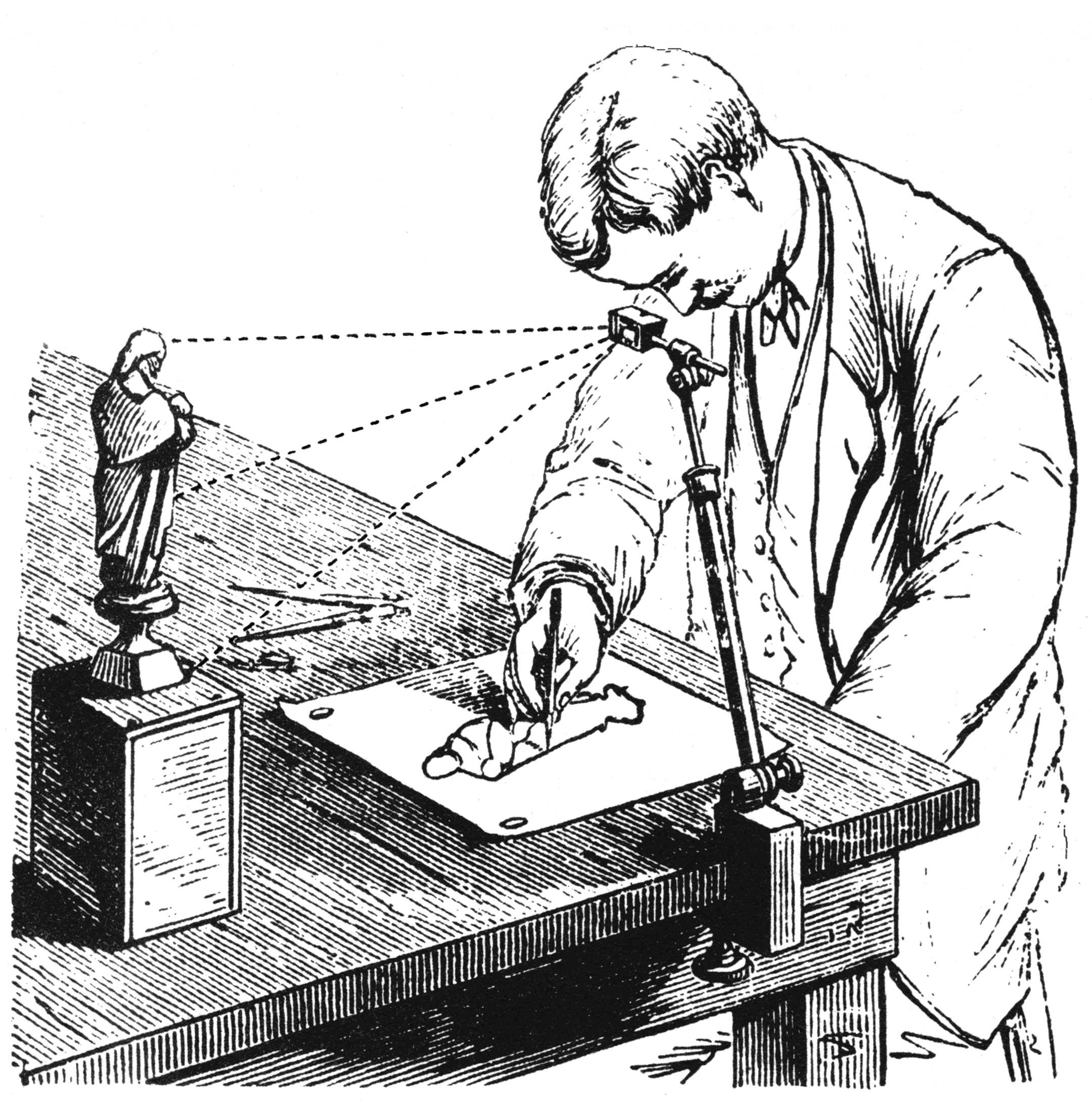 Camera Lucida in use drawing small figurine